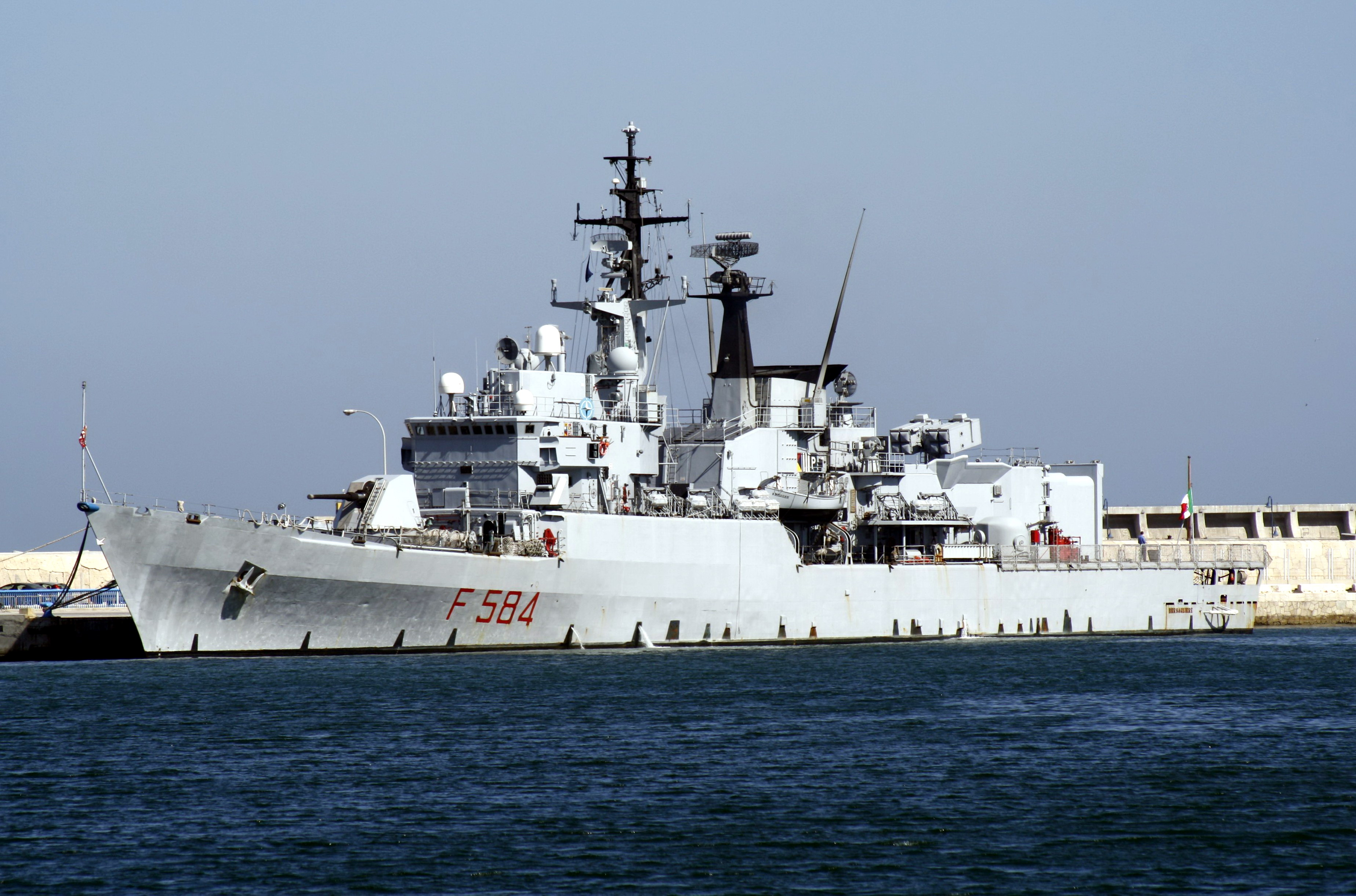 Italian frigate Bersagliere